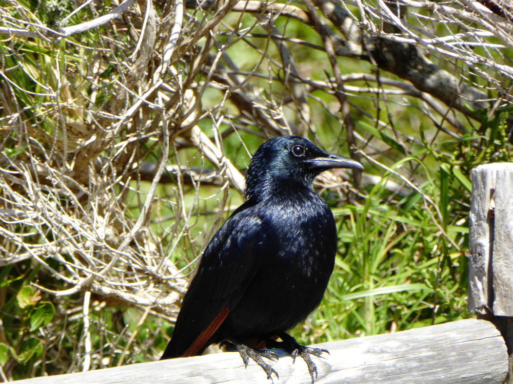 Red-winged Starling, male (Onychognathus morio), Cape Peninsula National Park, South Africa